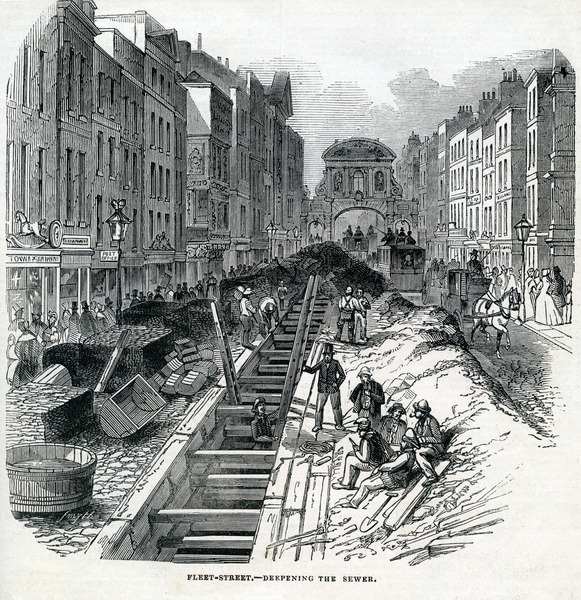 Construction work to deepen the sewer in Fleet Street, London.